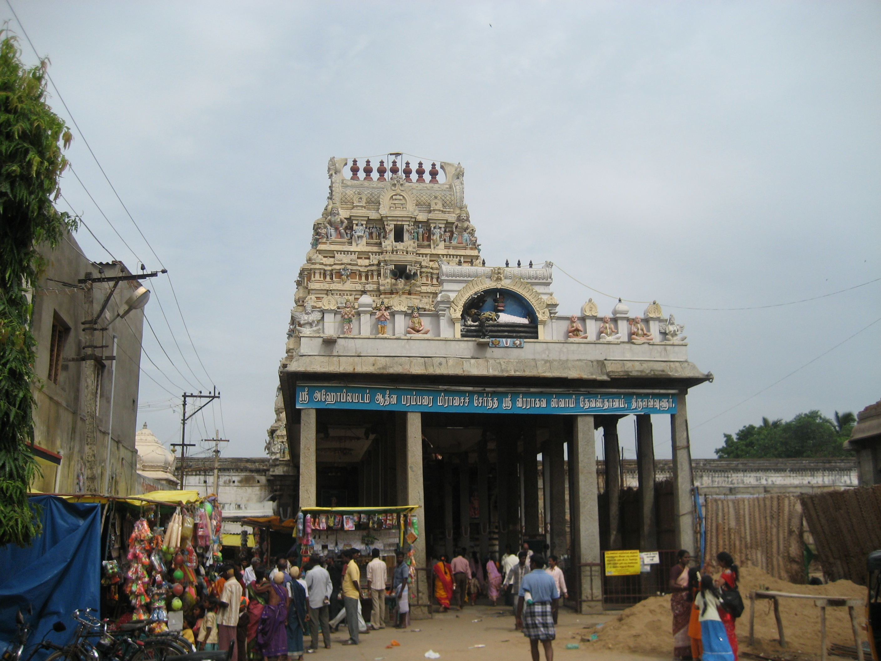 Photo of Tiruvallur temple.